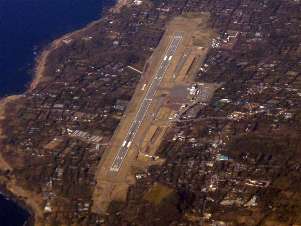 Aerial Photograph of Oshima airport at Izu-oshima (JAPAN) in 2007.